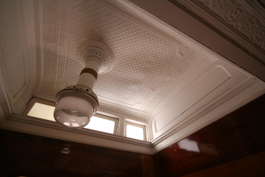 Roof detail inside of a restored Victorian Railways W type carriage